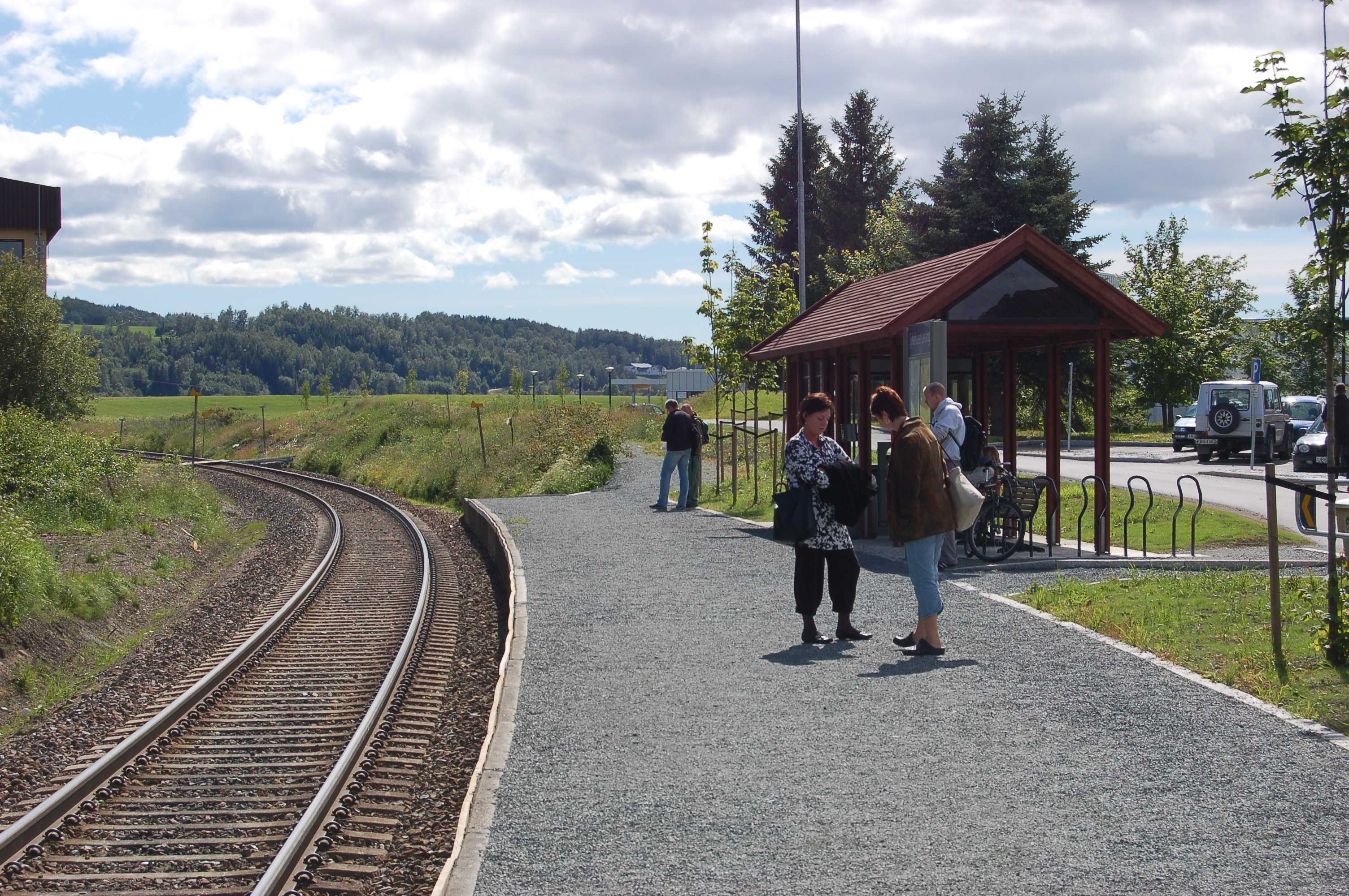 Sykehuset Levanger Station on Nordlandsbanen, in Levanger, Norway; located just beside Levanger Hospital.